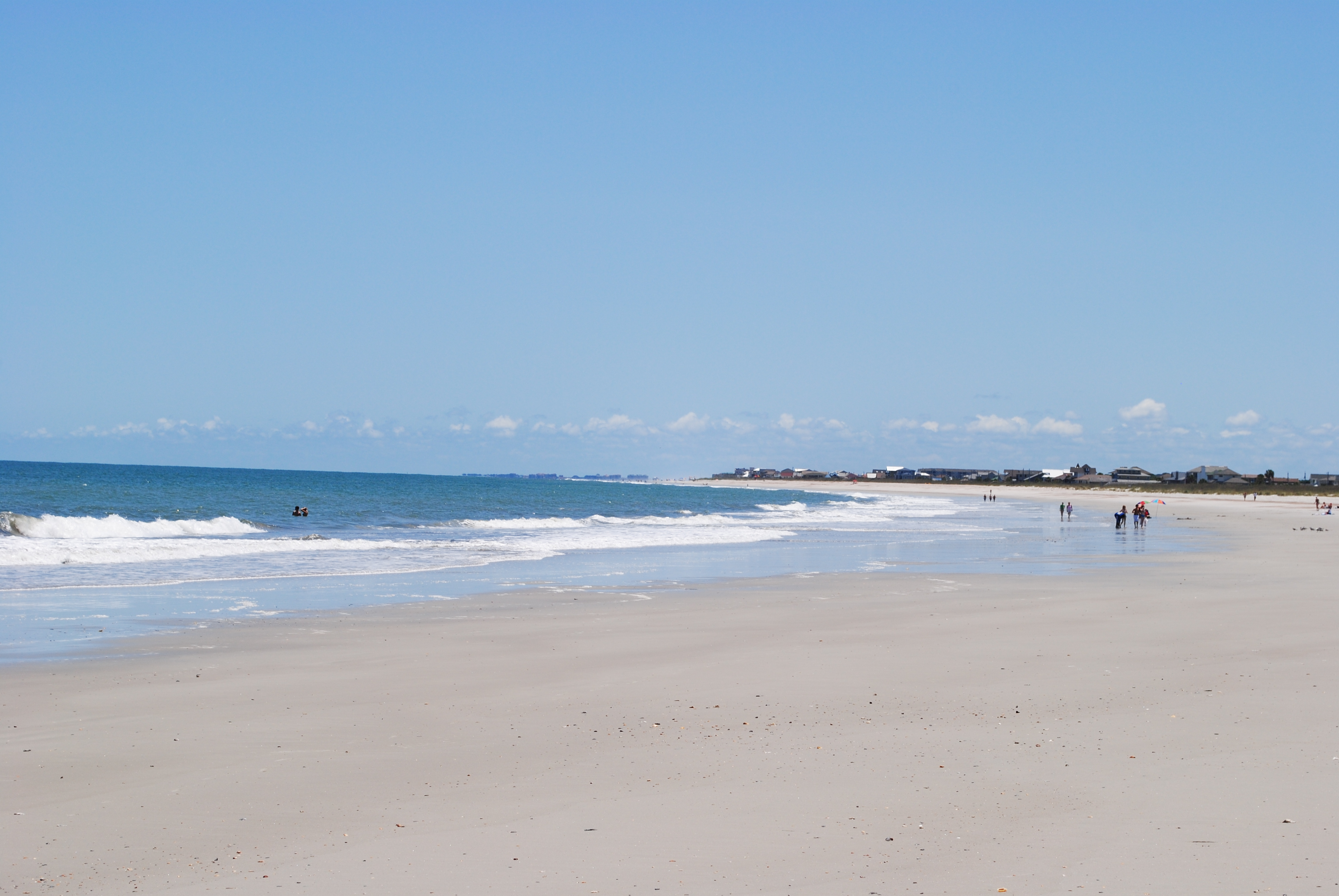 The beach in Fernandina Beach, Florida.